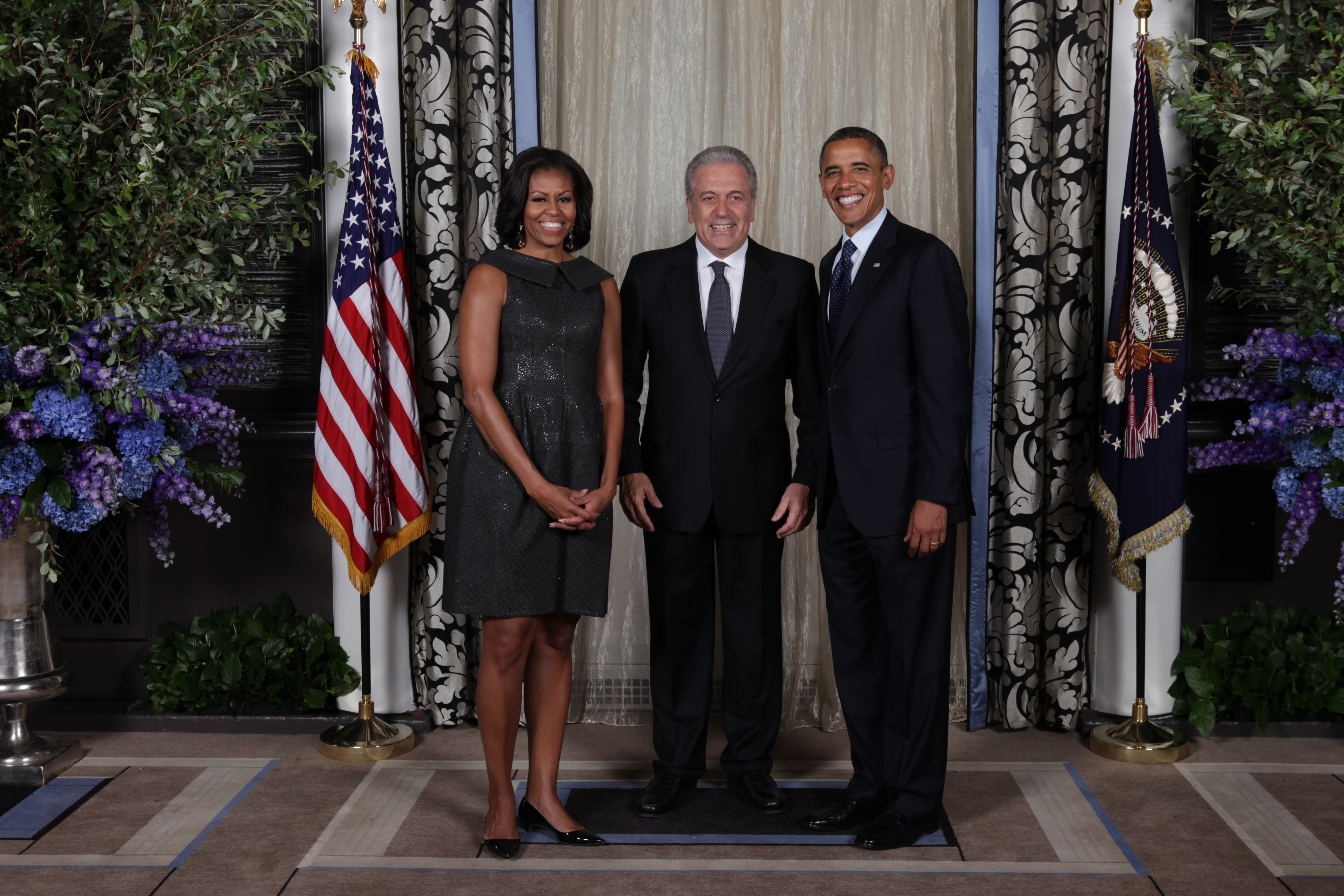 D. Avramopoulos' participation at the 67th General Assembly of the UN